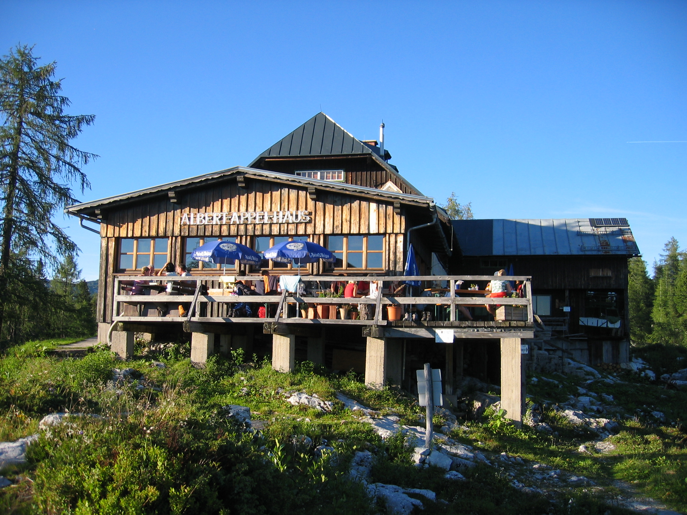 Alpine hut Albert-Appel-Haus, Totes Gebirge, Austria